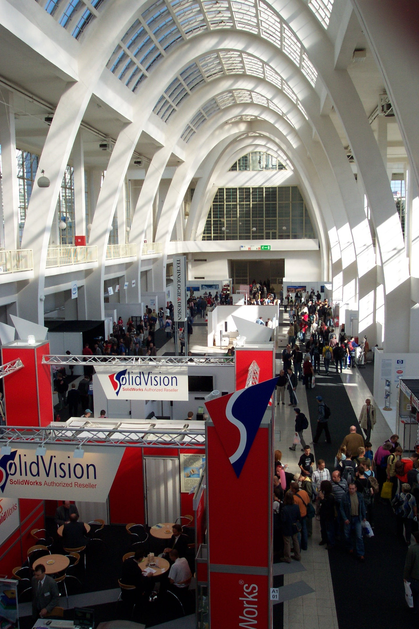 Brno, Invex exhibition - Výstava Invex v Brně